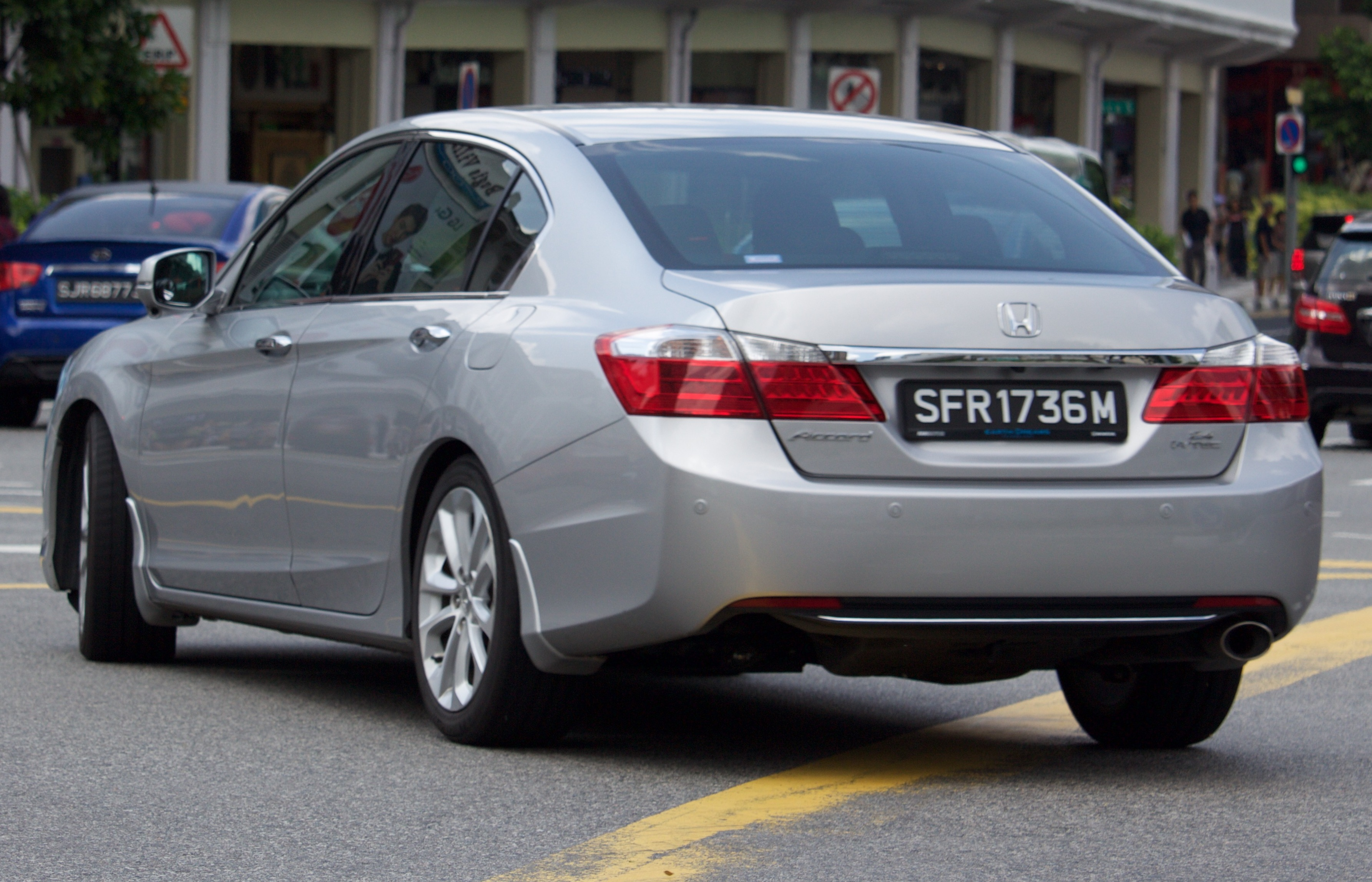 Ninth generation Honda Accord, photographed in Singapore. Vehicle registration enquiry resultsJurisdictionSingaporeRegistrationSFR1736MChassis codeMRHCR2630EP000014Engine codeK24W31200717Year of manufacture2014